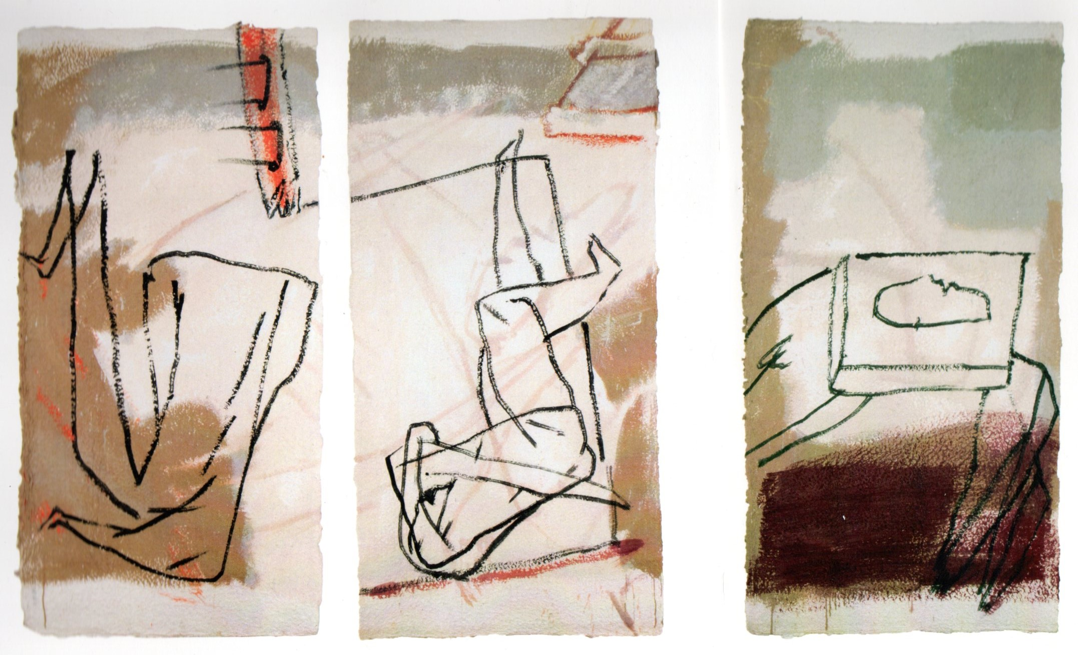 Inne werden 2010